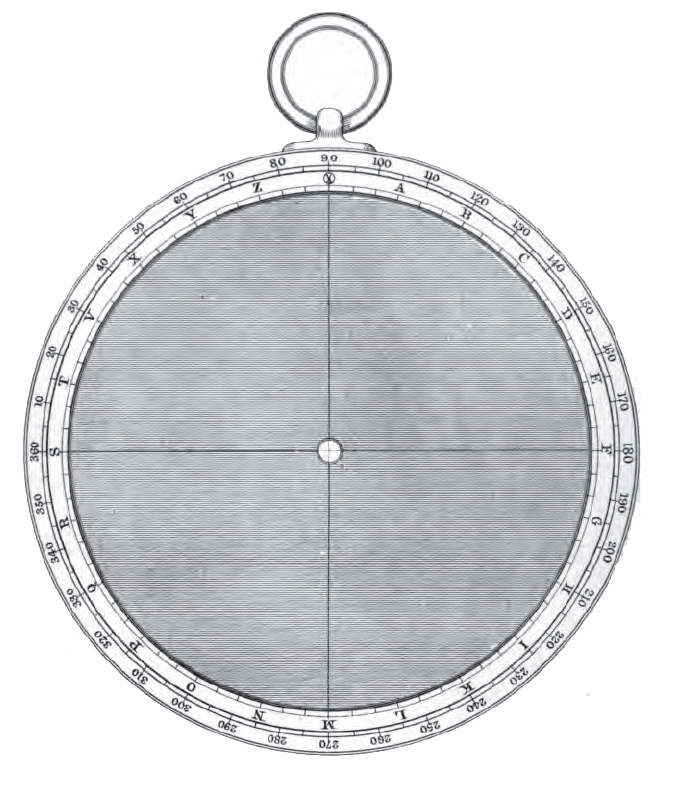 This is a representation PLATE I of Chaucer's astrolabe